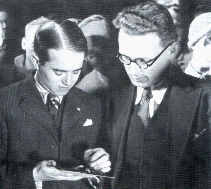 Salo Flohr and Mikhail Botvinnik in the 1930s